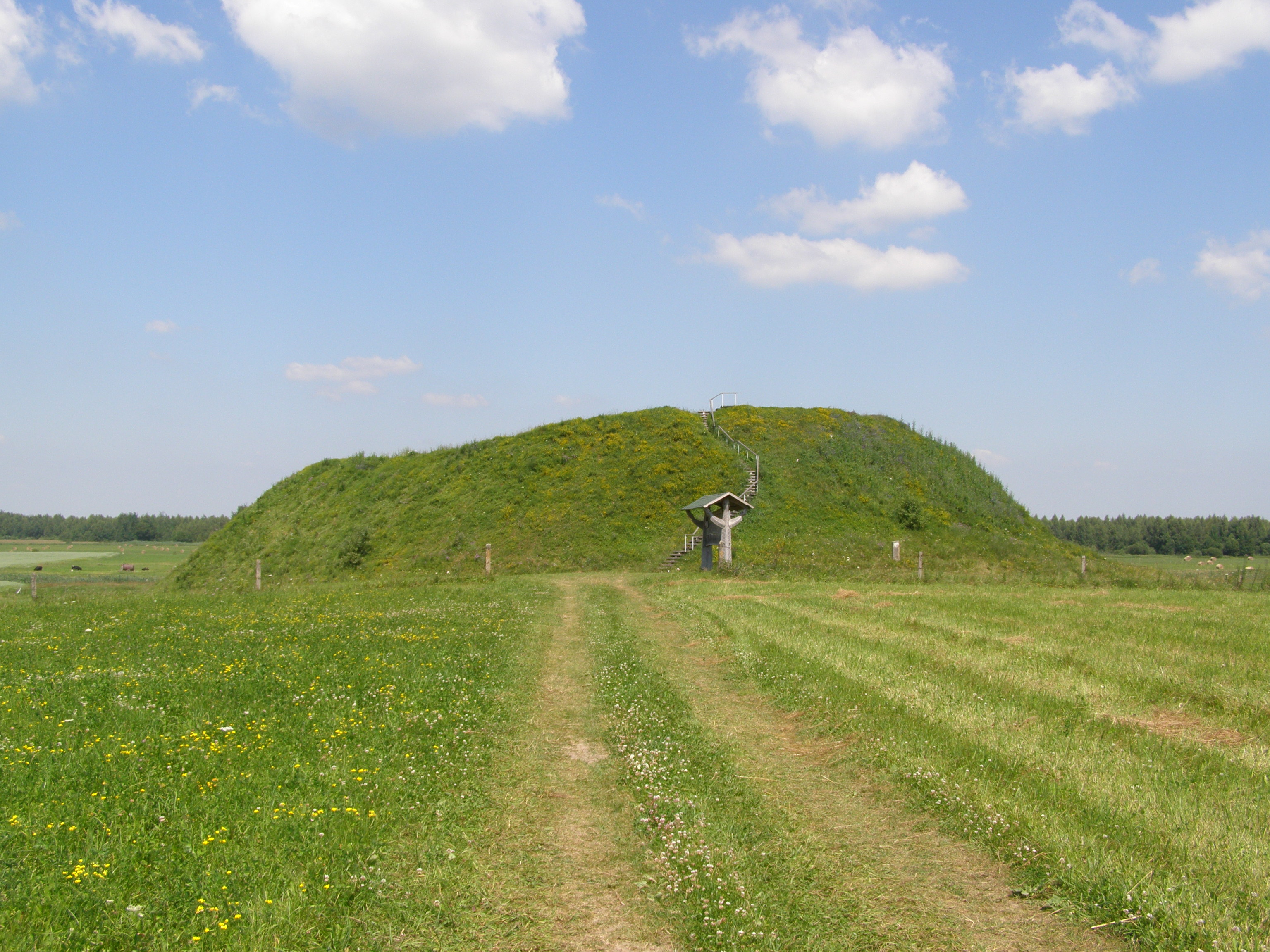 Varnupiai hillfort, Marijampolė district, Lithuania